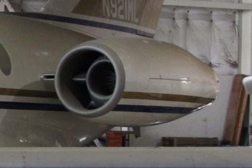 At Kansas City Downtown Airport ( Charles B. Wheeler Downtown Airport )